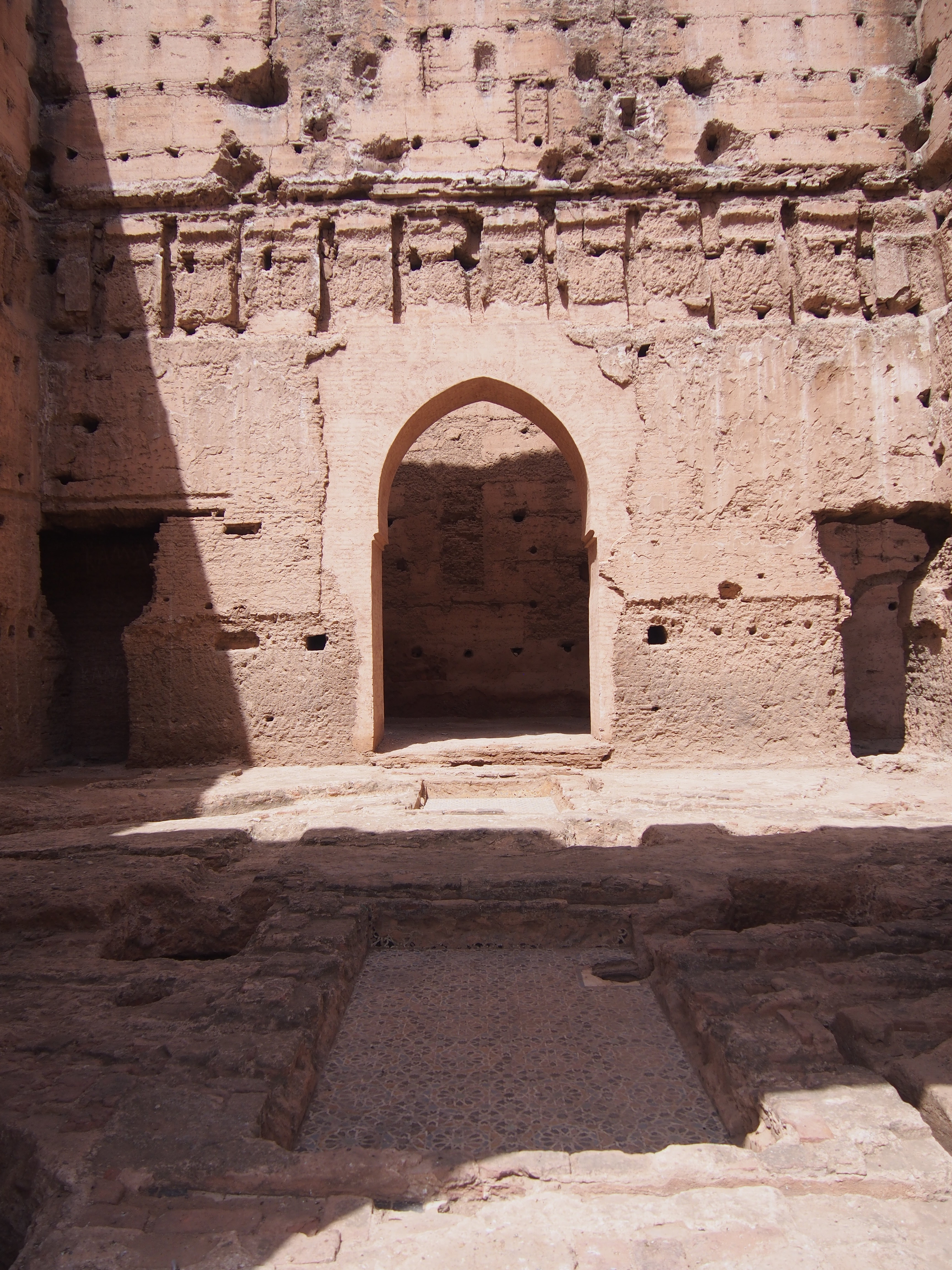 El Badi Palace